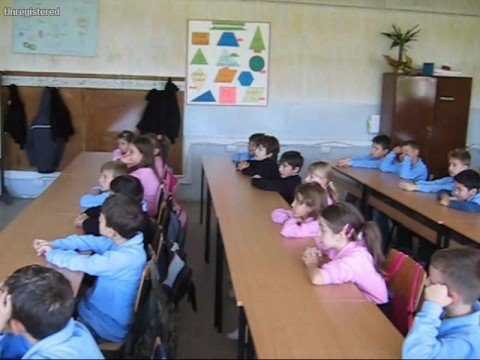 Lesson in KS Primary School, students from III grade